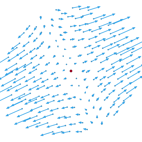 Symmetric component (strain) of the linear term of the Taylor expansion of the 2D velocity field File:Vel decomp field01 term0 s.png (q.v.)